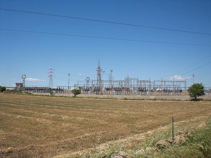 The electrical substation in Ragusa, Sicily, starting point of the Italy-Malta Interconnector cable.